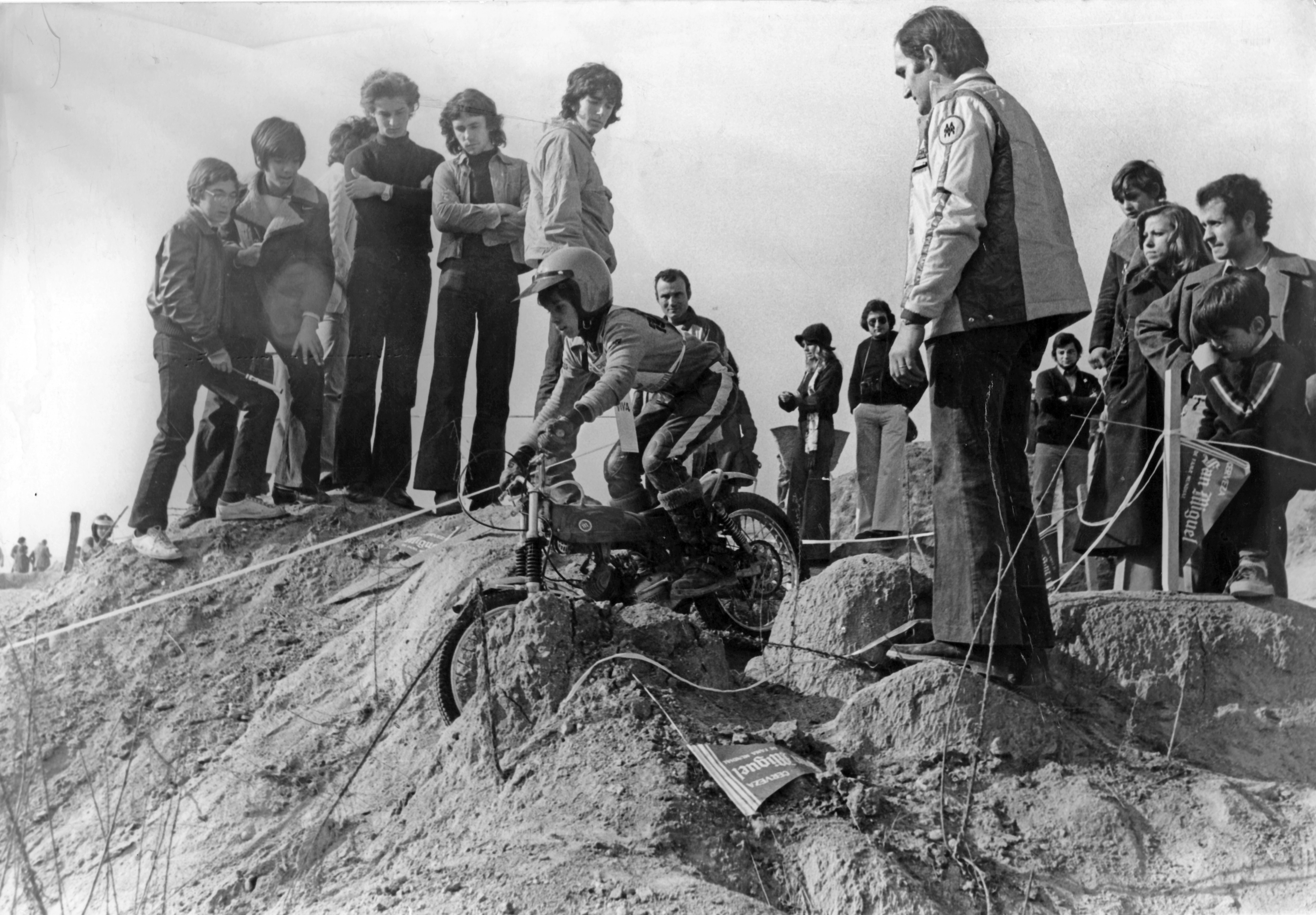 Pere Pi watching a participant in the children's motorcycling course held at the Gallecs circuit around Christmas 1974.